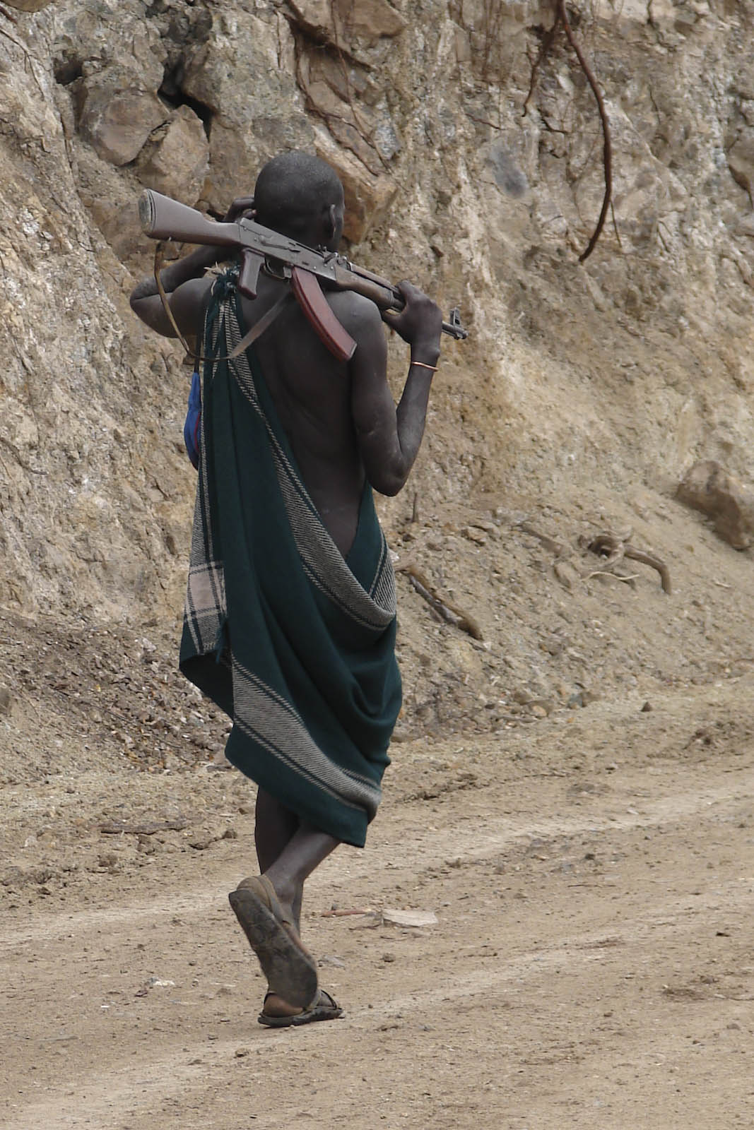 Man with kalashnikov in Mago National Park (Ethiopia)